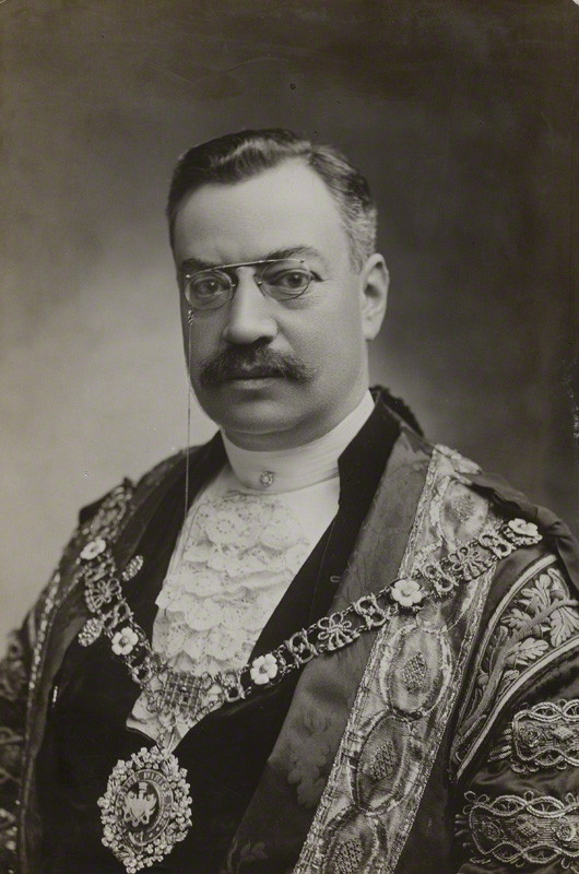 Marcus Samuel, 1st Viscount Bearsted by London Stereoscopic & Photographic Company bromide print, circa 1902 6 in. x 3 7/8 in. (151 mm x 100 mm) image size Given by Mrs Enthoven, 1925 NPG x673